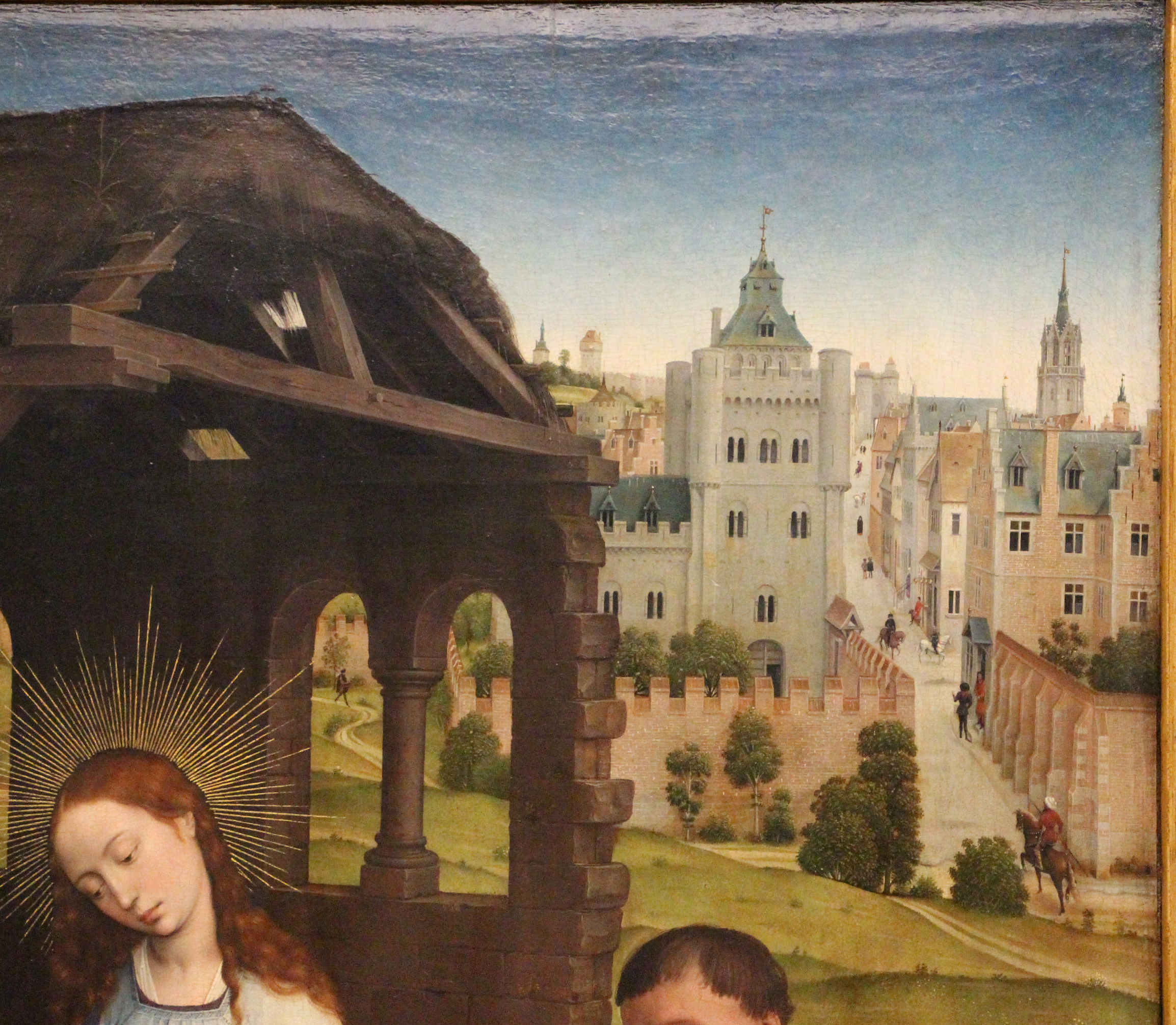 Early Netherlandish paintings in the Gemäldegalerie, Berlin